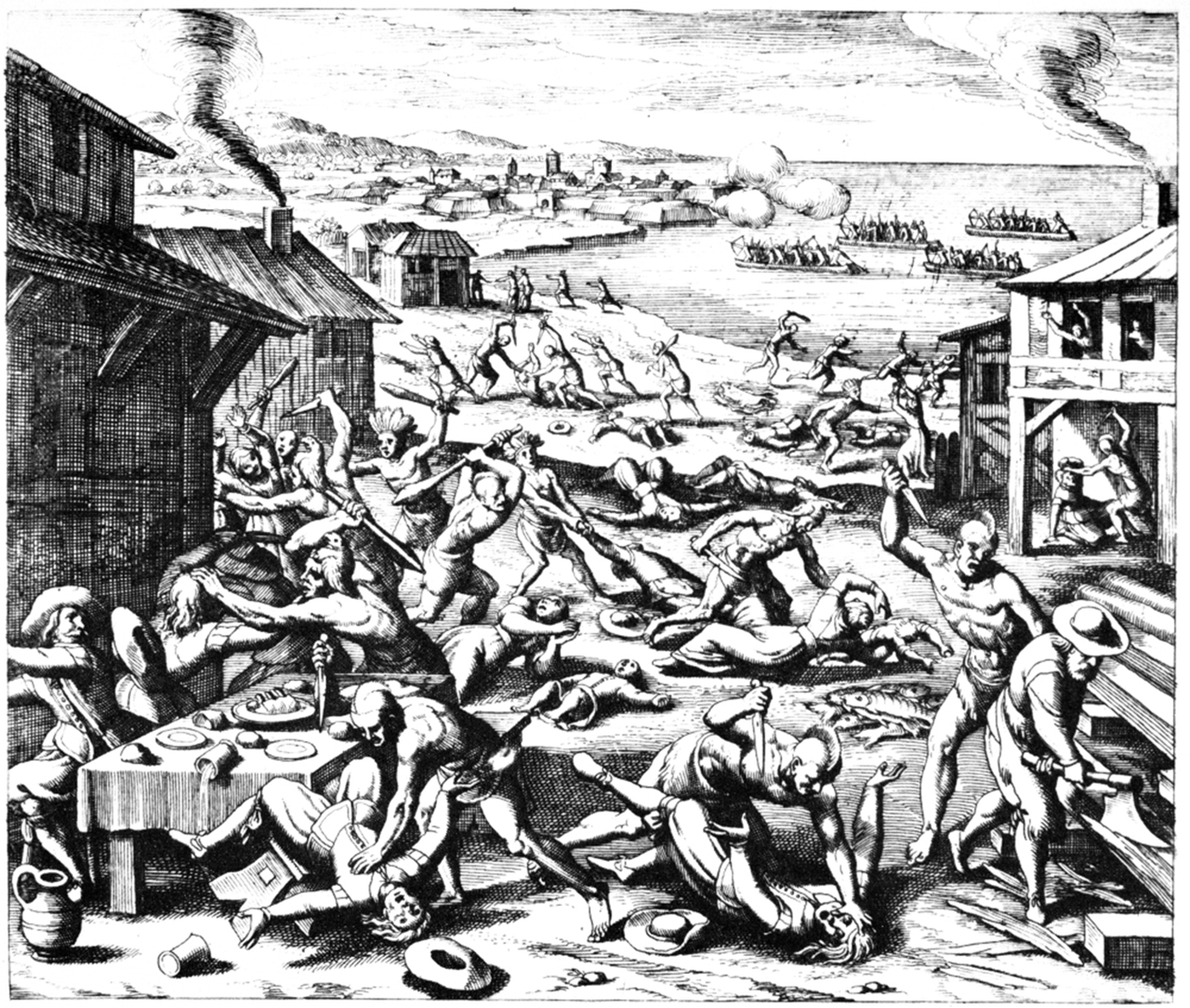 A 1628 woodcut by Matthaeus Merian published along with Theodore de Bry's earlier engravings in 1628 book on the New World. The engraving shows the March 22, 1622 massacre when Powhatan Indians attacked Jamestown and outlying Virginia settlements. Merian relied on de Bry's earlier depictions of the Indians, but the image is largely considered conjecture.